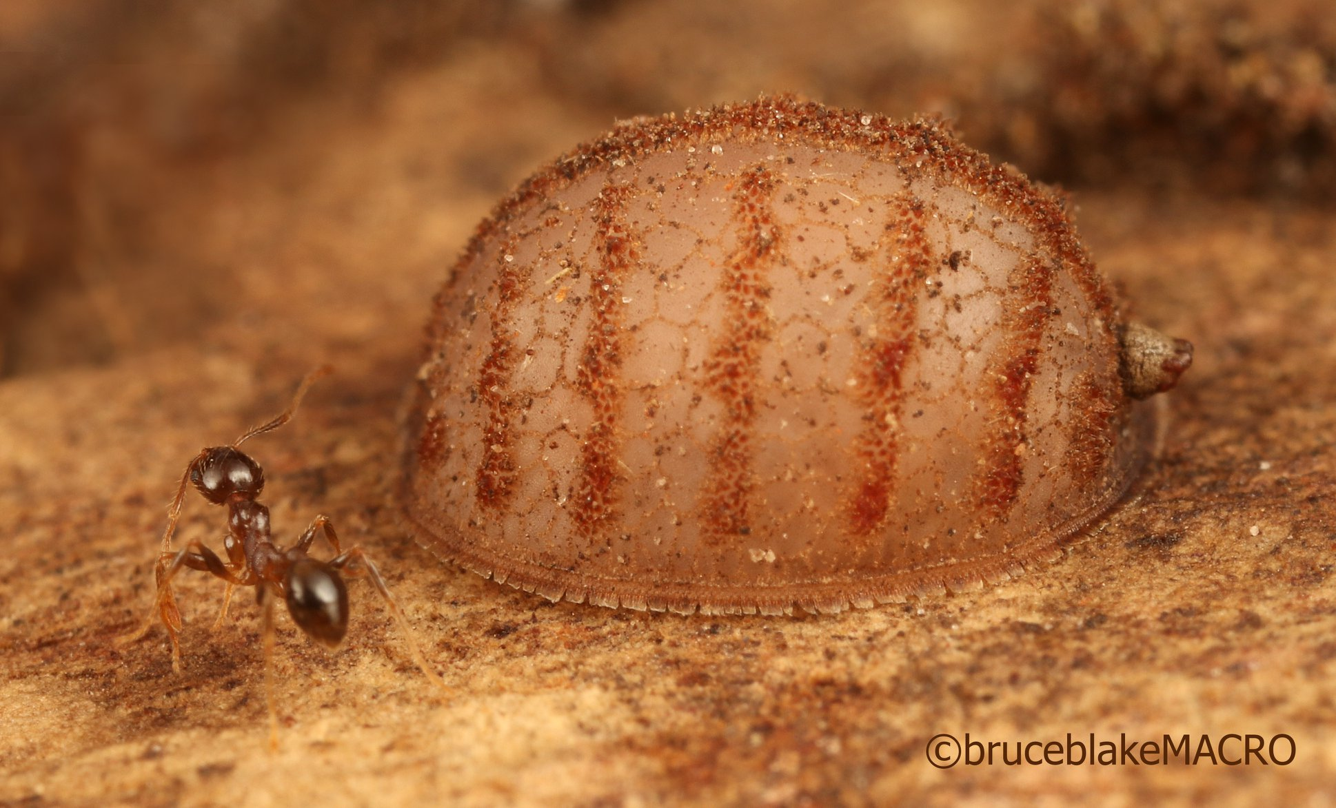 Microdon testaceus - Larva of Microdon testaceus which is one of the bee mimic hover flies (Syrphidae) - as larvae they live with ants and scavenge around the ant nests. Actual synonym : Archimicrodon testaceus (Walker, 1857) (look at Reemer et Ståhls (2013)